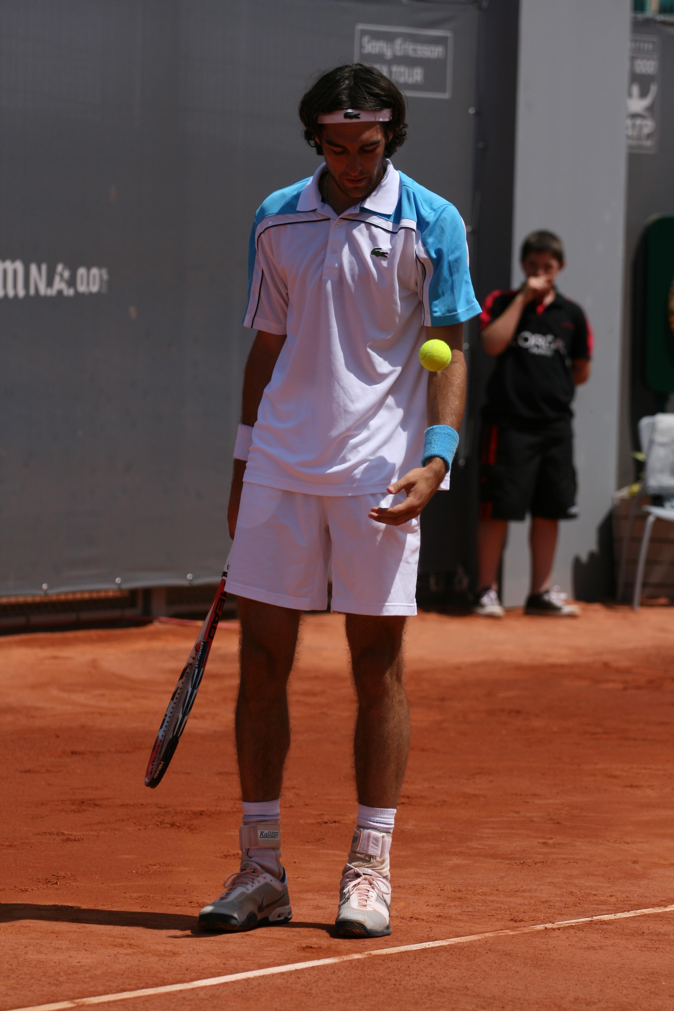 Jérémy Chardy against Stanislas Wawrinka in the 2009 Mutua Madrileña Madrid Open second round